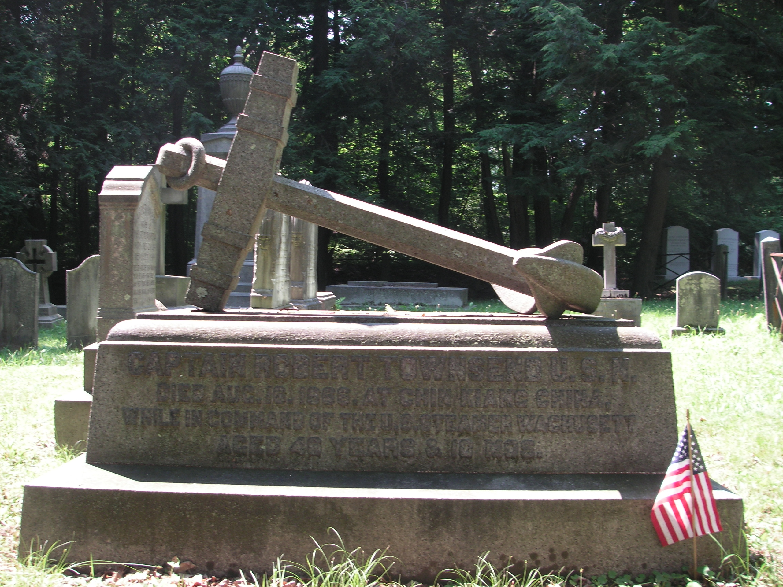 Photograph of the grave of Captain Robert Townsend (USN) who commanded several ships and gunboats during the American Civil War. The grave is located at the Albany Rural Cemetery and was photographed on July 2008.